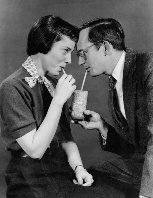 Photo of Wally Cox as Mr. Peepers and Patricia Benoit as Nancy Harrington from the television program Mr. Peepers.